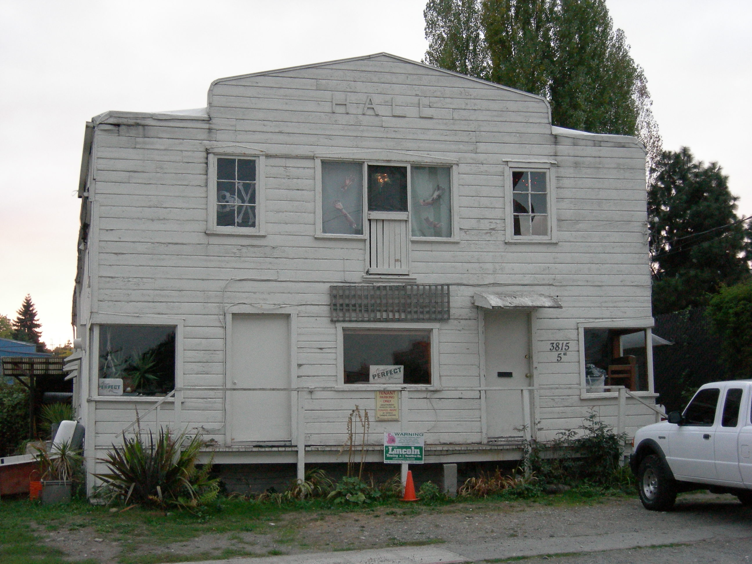 This building just west of Interstate 5, near the north shore of Lake Union, Seattle, Washington, was once known as Freeway Hall and was, in the 1970s and early 1980s, the headquarters of the Freedom Socialist Party